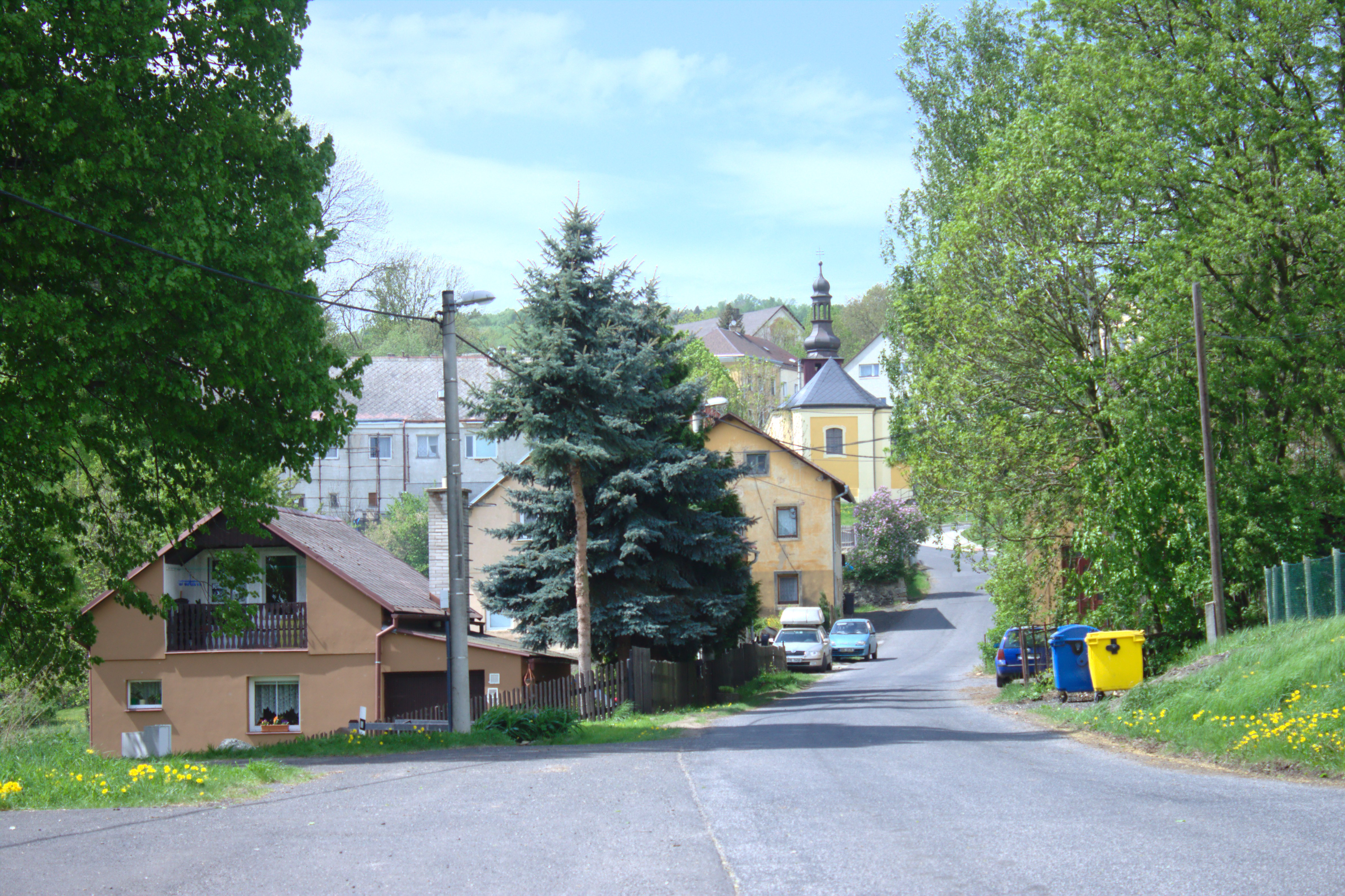 Buildings in the village of Javory, Ústí Region, CZ